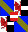 Simple coat of arms of the Thun(n) und Hohenstein family.